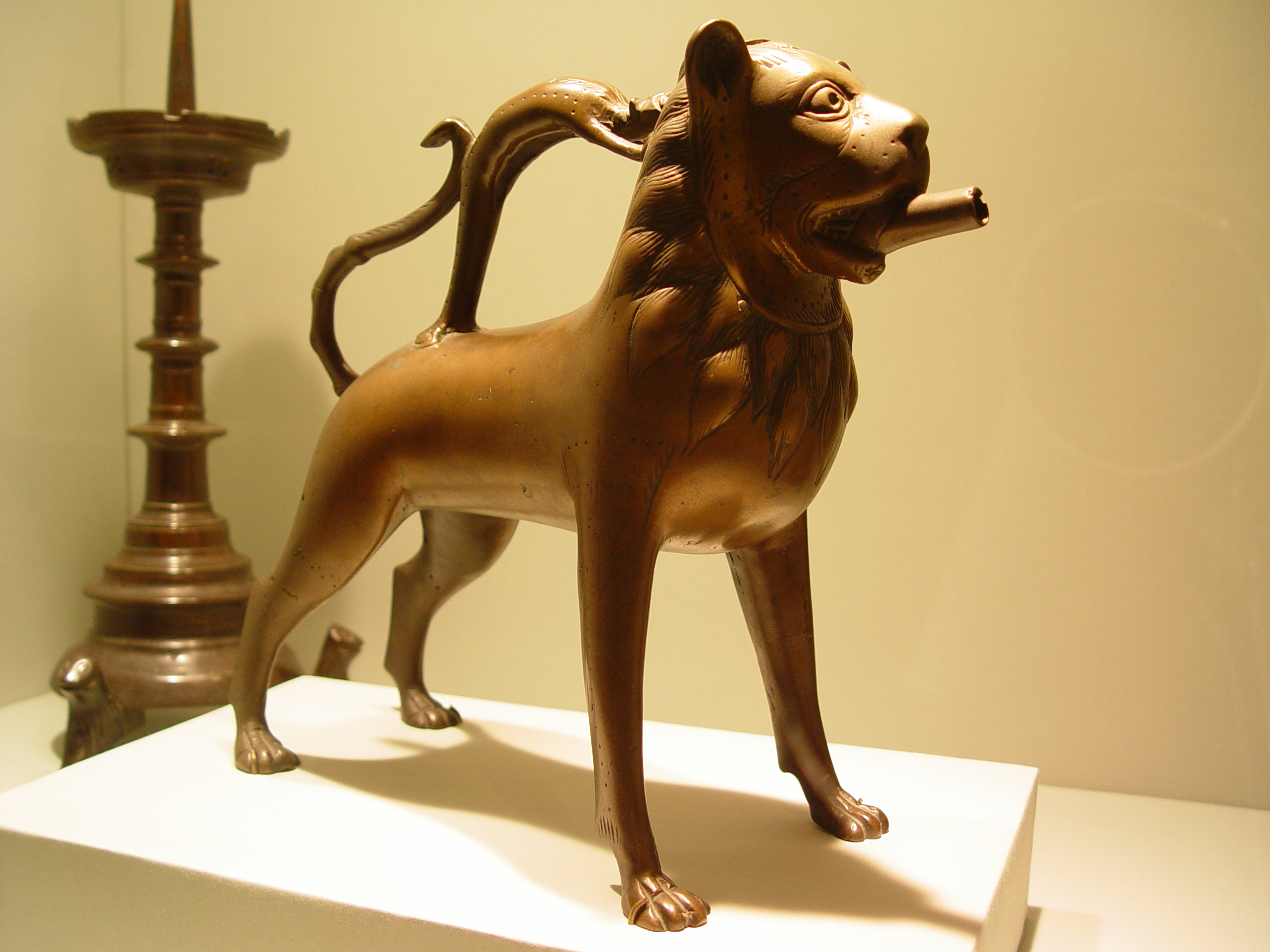 Northern Germany, Lower Saxony, Hildesheim (?) Aquamanile (Ewer), circa 1250 Metalwork, Brass (copper alloy), 10 1/2 x 11 7/8 x 3 7/8 in. (26.67 x 30.16 x 9.84 cm) Gift of Varya and Hans Cohn (AC1992.152.100) Wikipedia Loves Art at the Los Angeles County Museum of Art This photo of item # AC1992.152.100 at the Los Angeles County Museum of Art was contributed under the team name "team_a" as part of the Wikipedia Loves Art project in February 2009. Los Angeles County Museum of Art The original photograph on Flickr was taken by howcheng—please add a comment to the original Flickr page whenever a use has been made on Wikipedia or another project. Project galleries on Flickr: this institution, this team